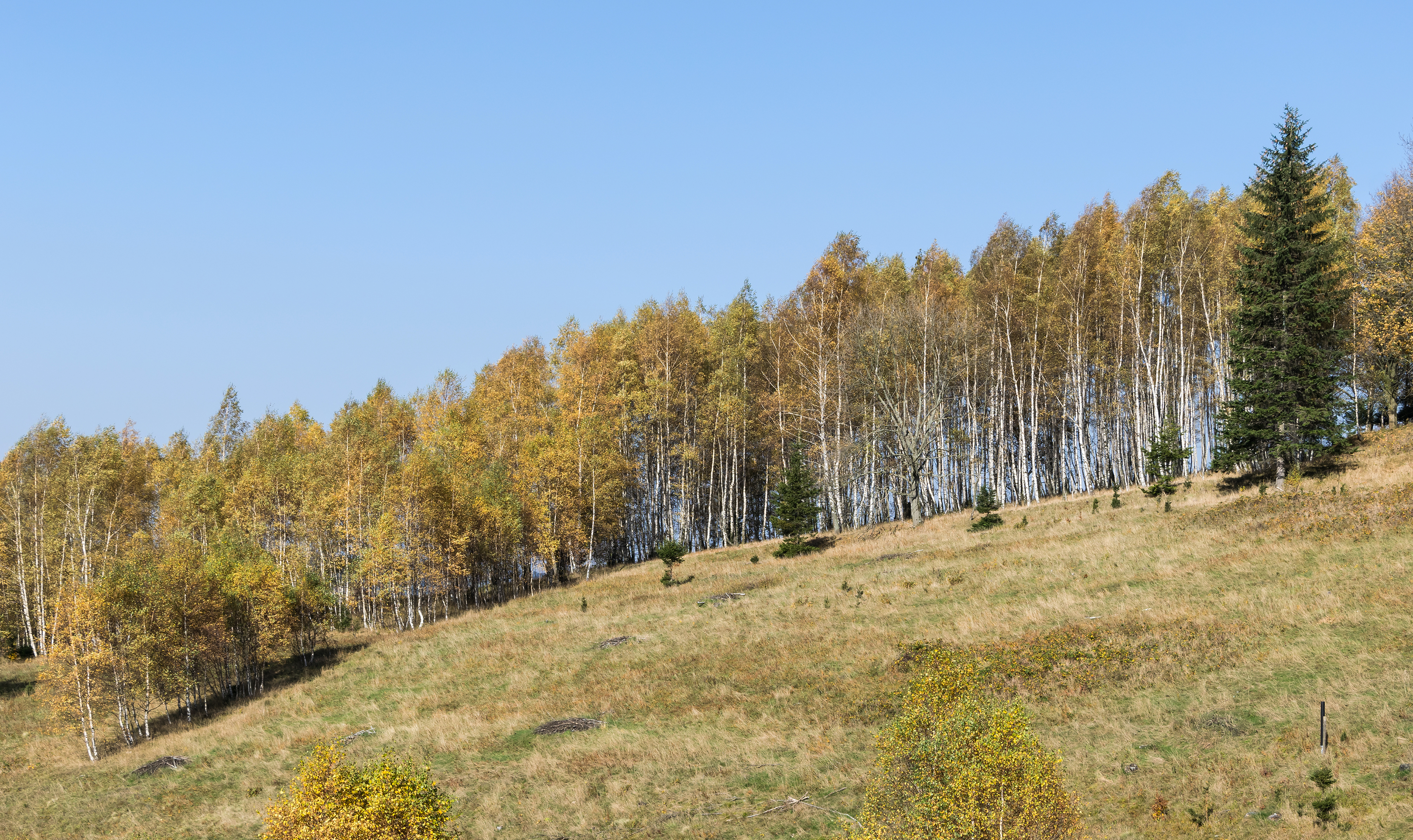 Birch young woods in Nowa Morawa